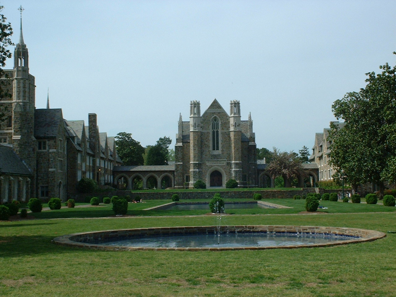 The courtyard to the Henry Ford Buildings at Berry College. Taken by me on 4/17/2005.